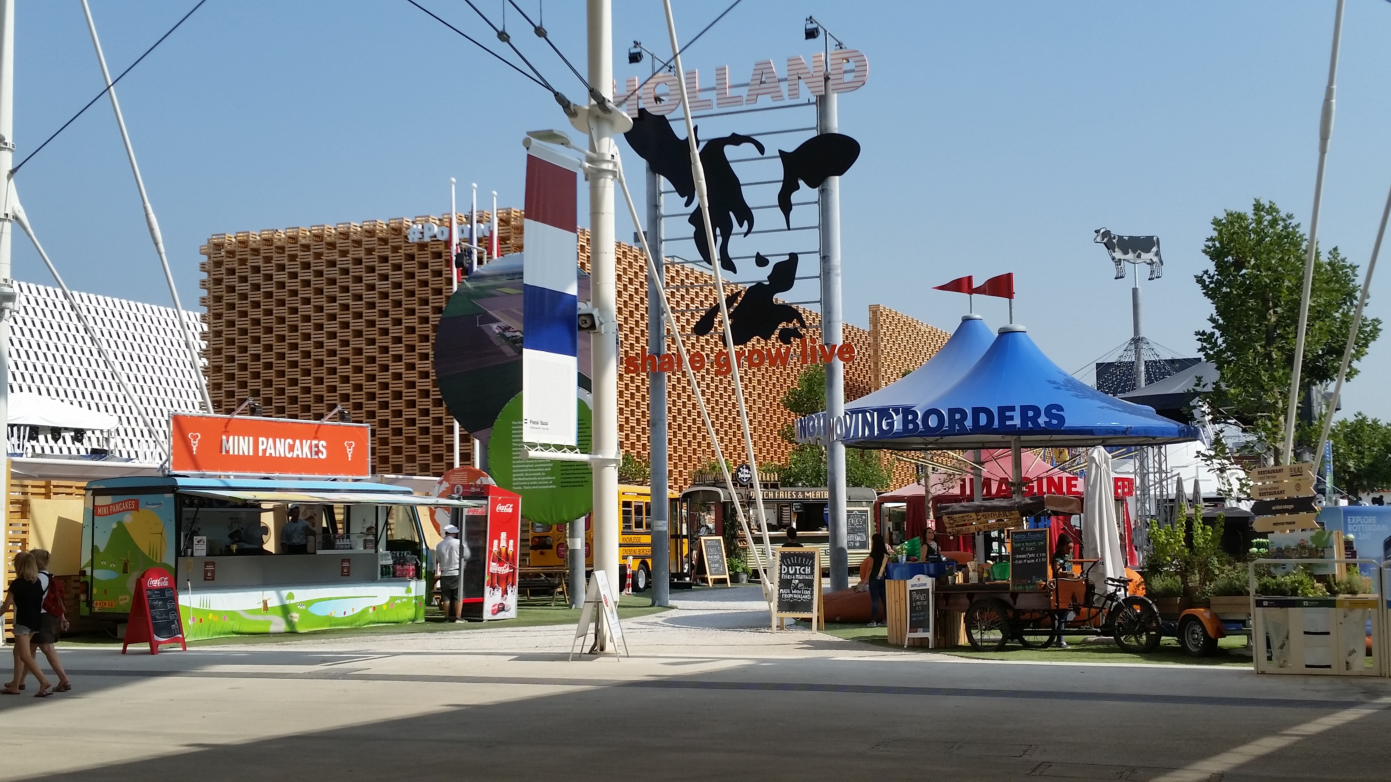 Pavilion of the Expo 2015 located in Milano (Italy)